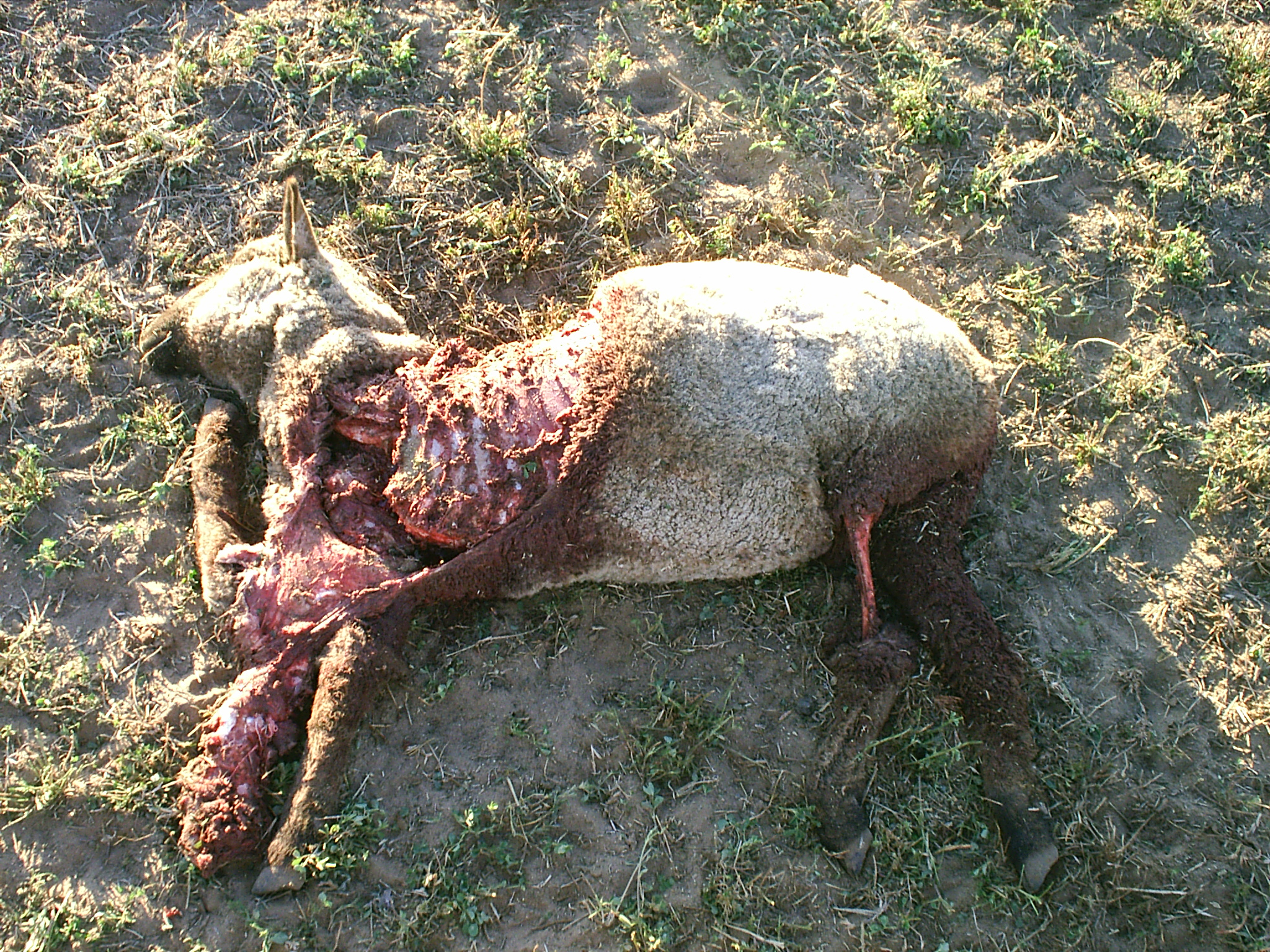 Domestic lamb killed and partially consumed by coyotes